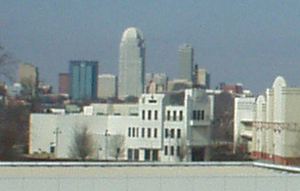 A view of NCSA's film school with downtown Winston-Salem in the background.